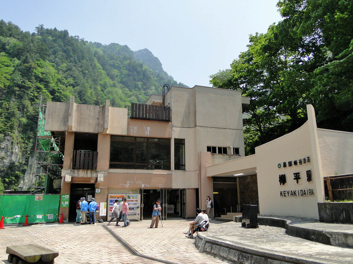 Keyakidaira Station on the Kurobe Gorge Railway Main Line